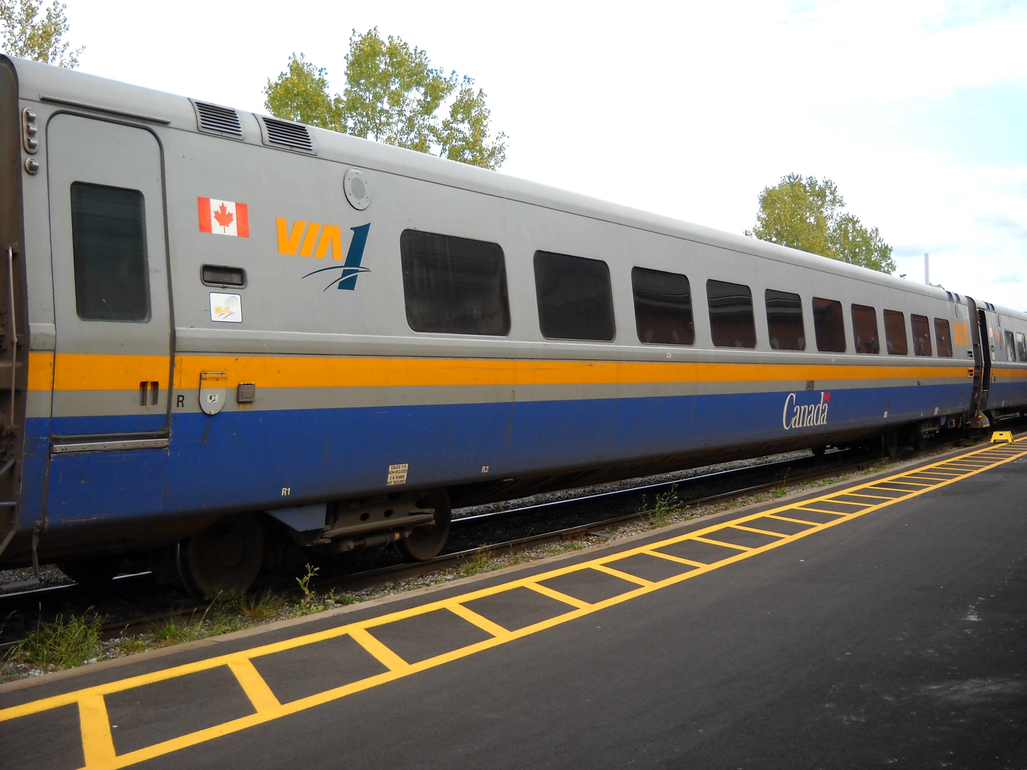 LRC CLub Car